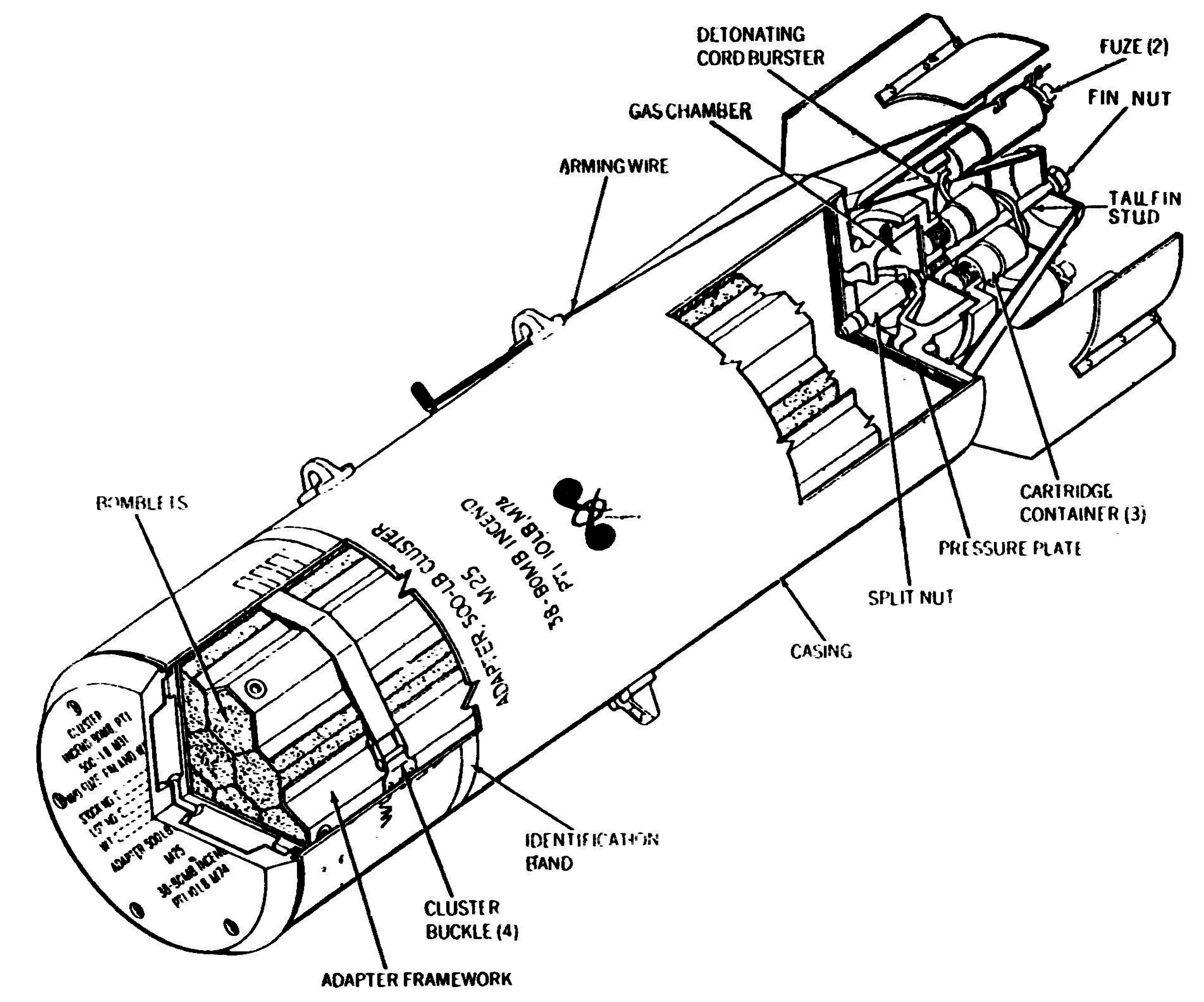 500 lb cluster bomb AN-M26 and AN-M32 fitted for 4 lb incendiary bombs (AN-M50)